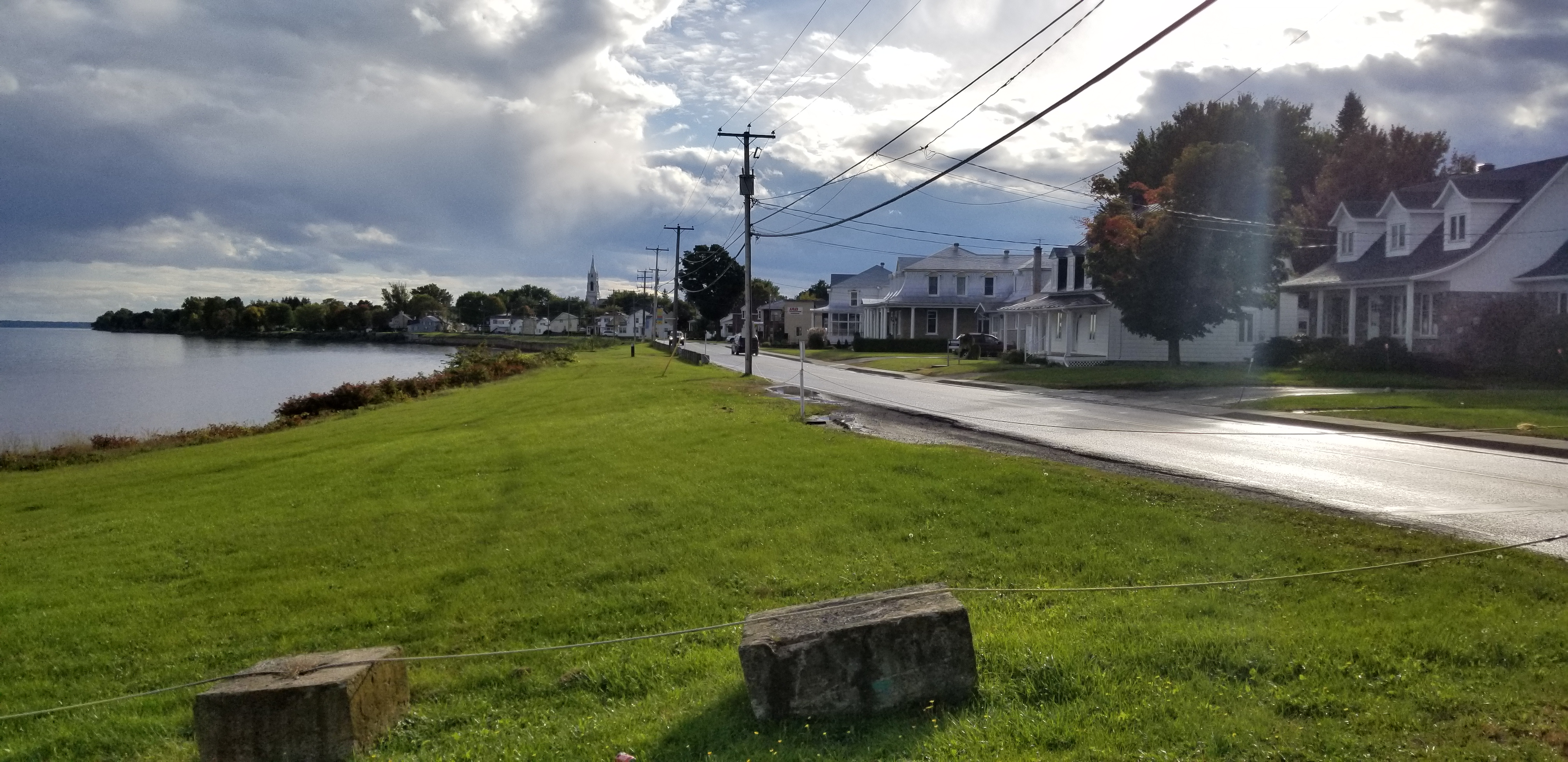 Village of Batiscan, looking west from Municipal Wharf and Route 138. The St. Lawrence River appears to the left of the image.